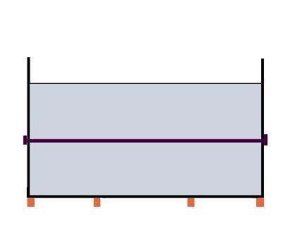 Scheme of the water-reservoir type "flat-bottom-reservoir"